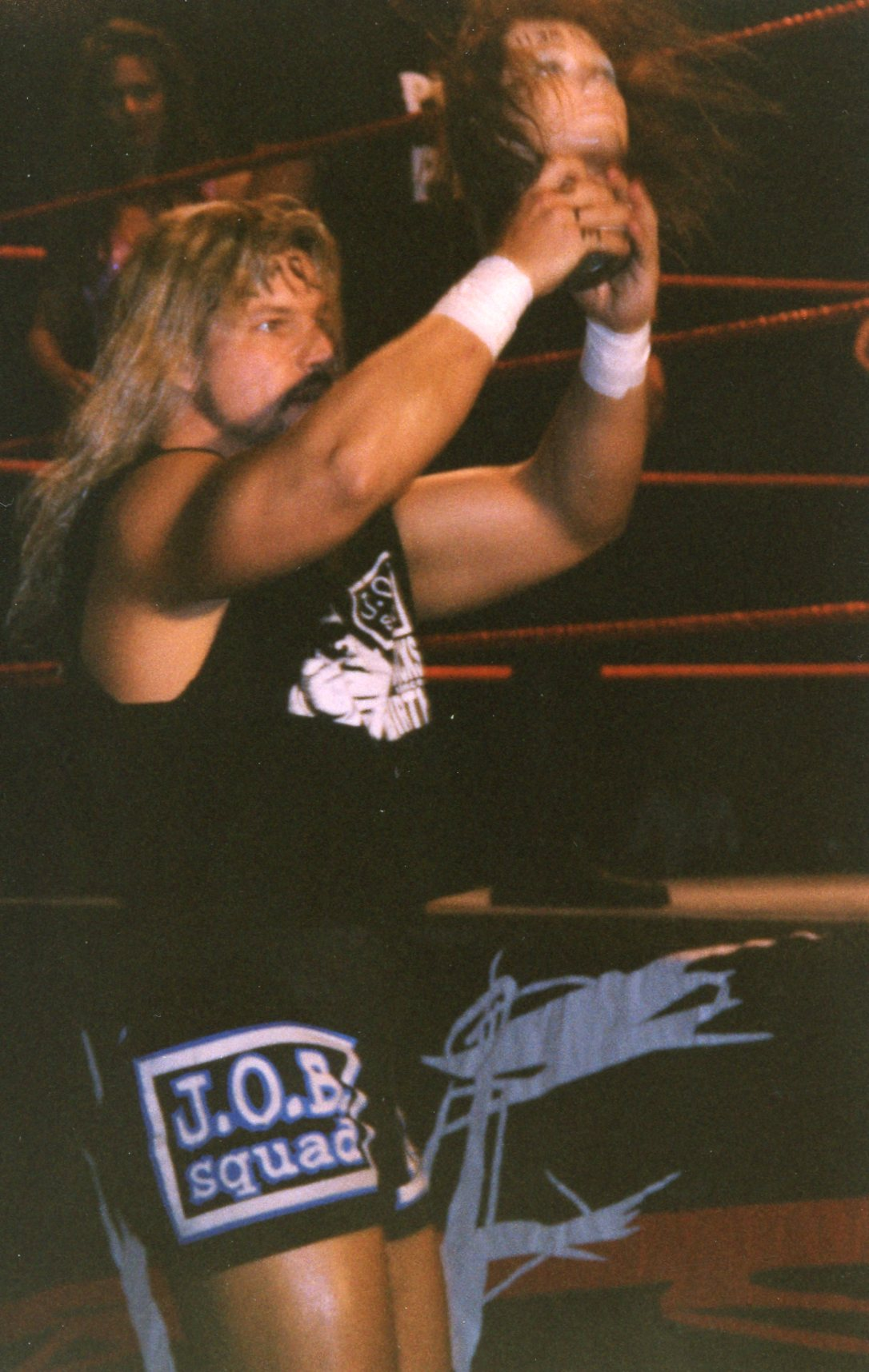 Al Snow shakes his tradmark "Head" before a match in then-Newcastle Arena. Originally taken April 3, 1999 in Newcastle upon Tyne, England.